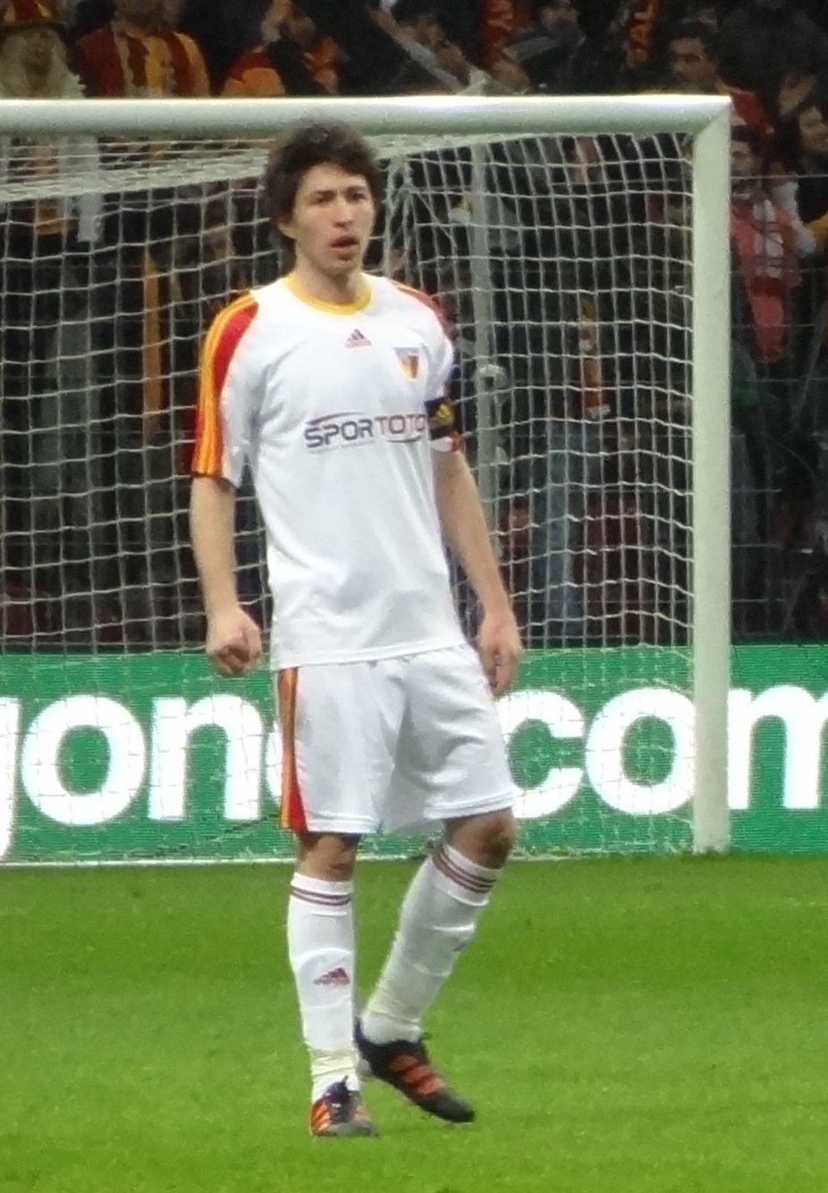 Ernen Güngör vs Galatasaray